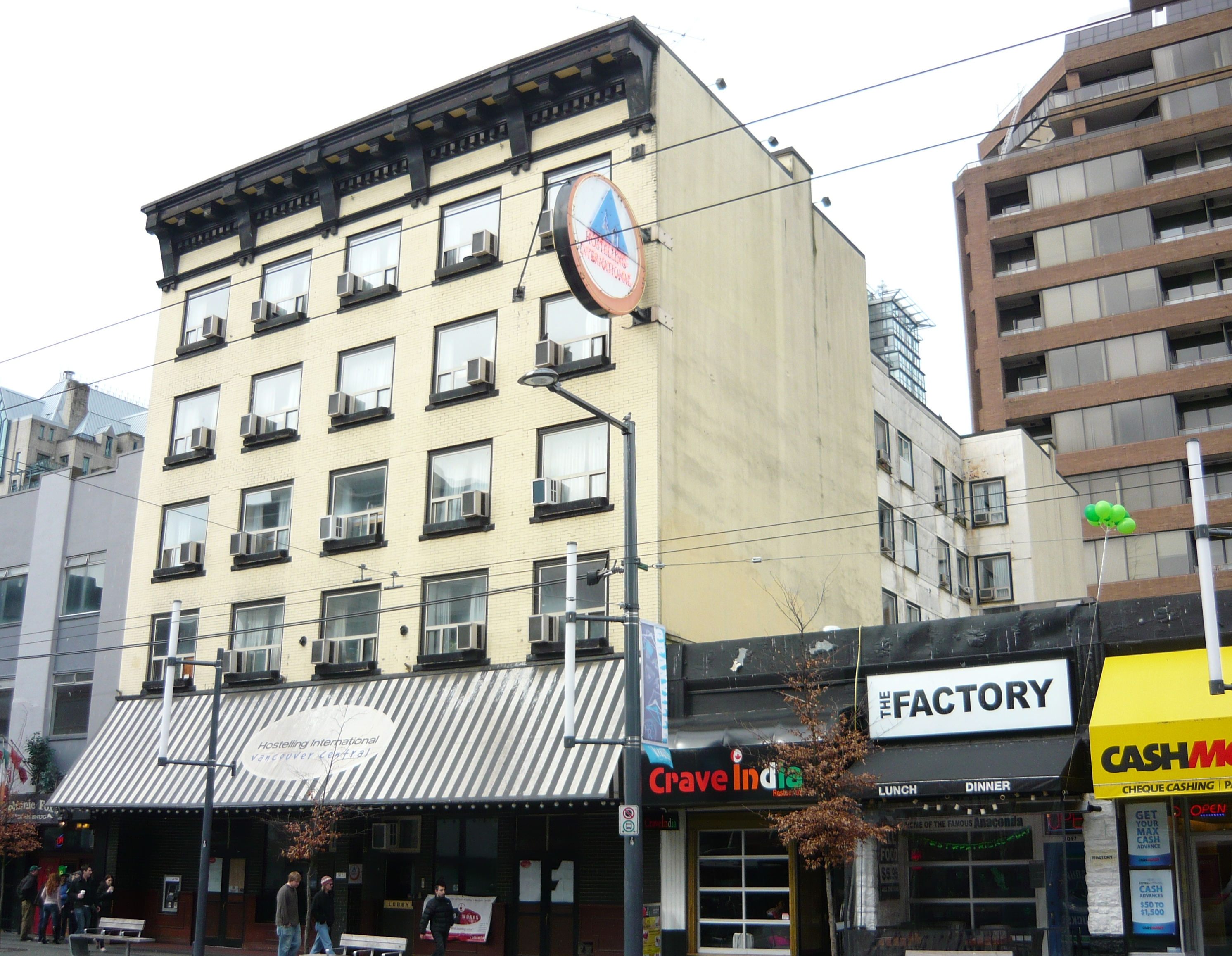 Hostelling International - Vancouver Central, 1025 Granville Street, Vancouver, British Columbia, Canada. Built 1911. Architect: Parr and Fee. Builder: Hemphill Brothers. Formerly "Royal Hotel".